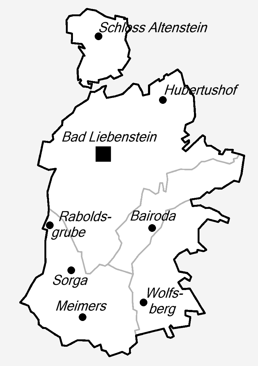 District-Maps of Bad Liebenstein.